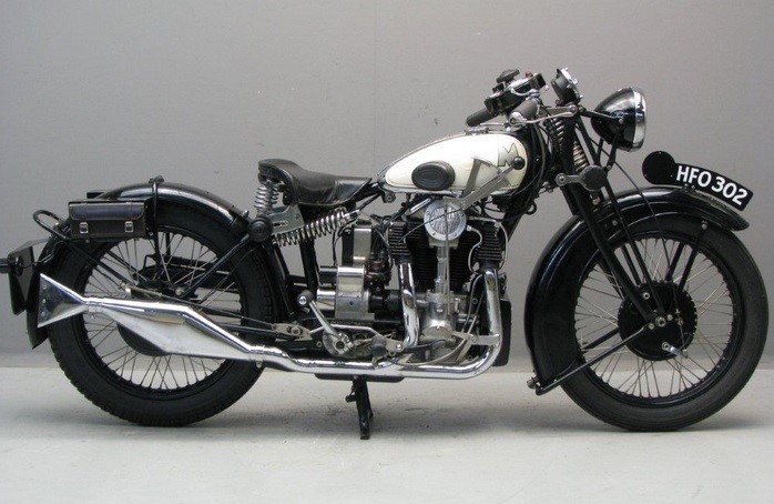 1931 Matchless Silver Hawk 600 OHV V-four